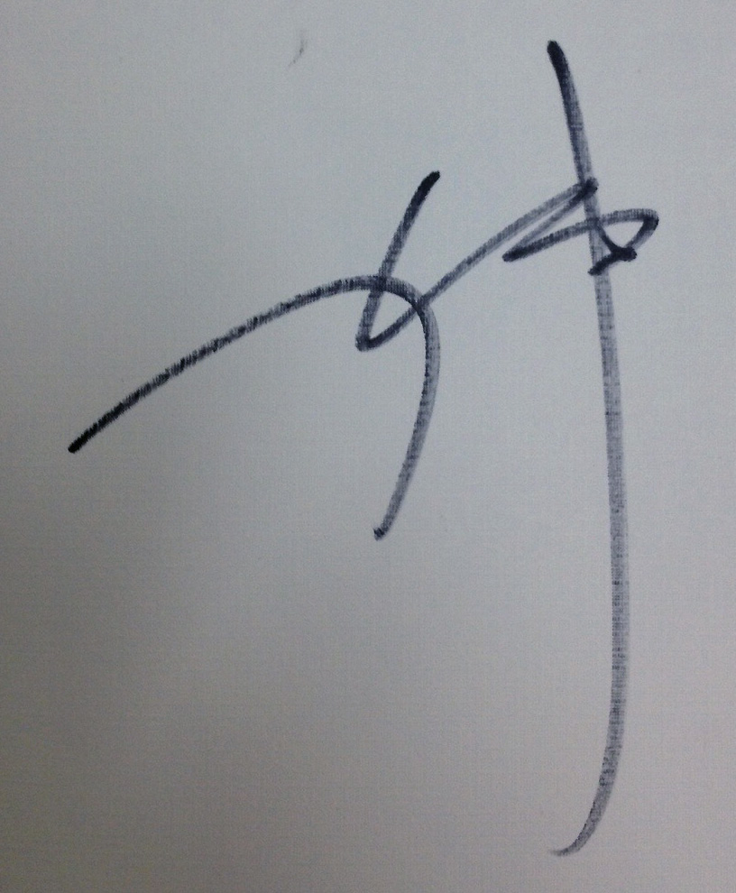 This is Alex Fong's signature.